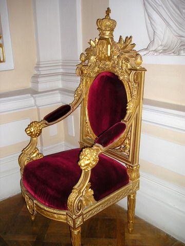 Pavlovsk Palace. Throne of Russian Emperor Pavel I.